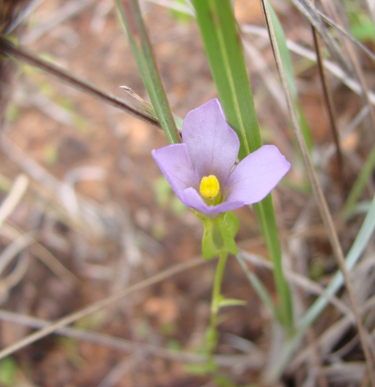 Schultesia gracilis in Parque Nacional de Brasília - Brasília - Distrito Federal - Brasil.